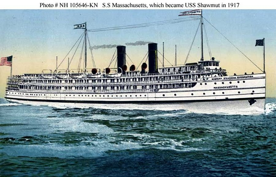 Shown after she was purchased and remodelled by the Eastern Steam Ship Corporation in 1912 Donation of Captain Stephen S. Roberts, USNR, (Retired) 2008 Naval Historical Center photo NH 105646-KN